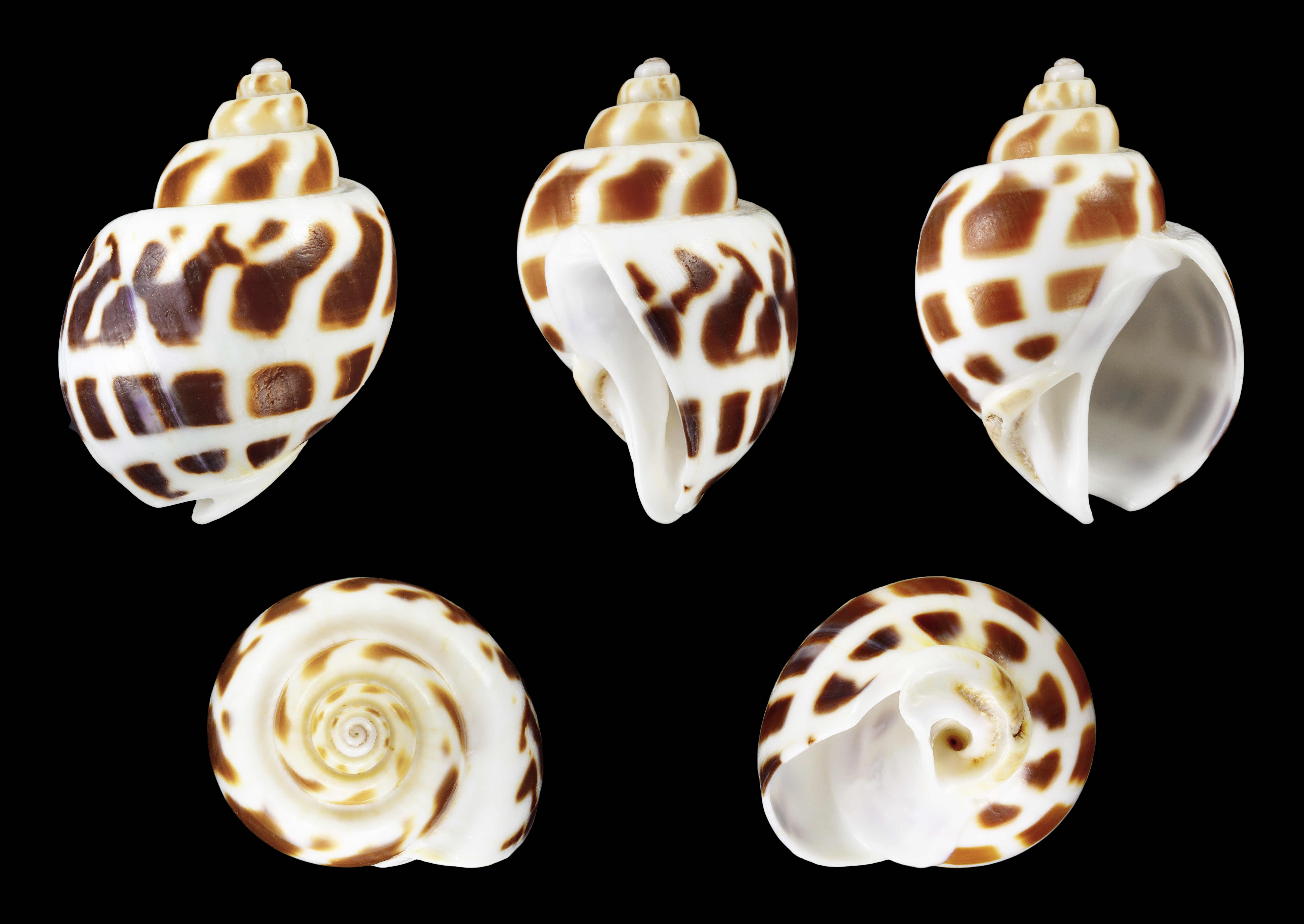 Babylonia areolata (Link, 1807), Spotted Babylon; Length 4.6 cm; Originating from Taiwan; Shell of own collection, therefore not geocoded.